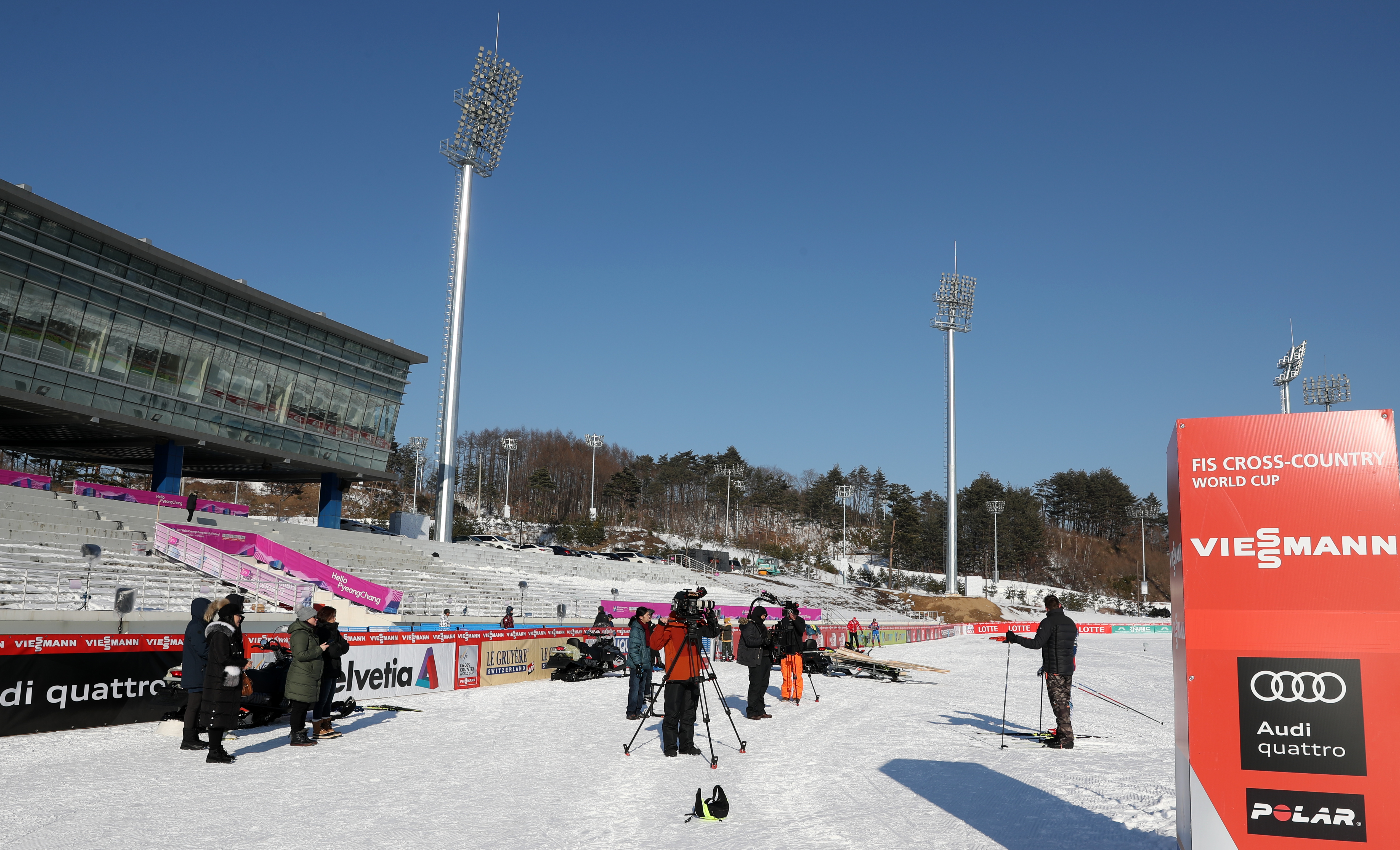 PyeongChang Alpensia February 1, 2017 Alpensia, Pyeongchang-gun, Gangwon-do Ministry of Culture, Sports and Tourism Korean Culture and Information Service ( Official Photographer : Jeon Han This official Republic of Korea photograph is being made available only for publication by news organizations and/or for personal printing by the subject(s) of the photograph. The photograph may not be manipulated in any way. Also, it may not be used in any type of commercial, advertisement, product or promotion that in any way suggests approval or endorsement from the government of the Republic of Korea. 알펜시아 2017-02-01 평창군 문화체육관광부 해외문화홍보원 코리아넷 전한